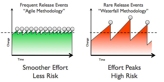 This diagram shows the differences in terms of frequency of releases and scale of impact between agile and traditional iterative methodologies.